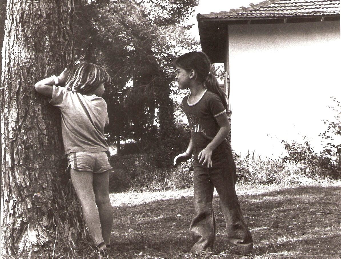 Education in Israel